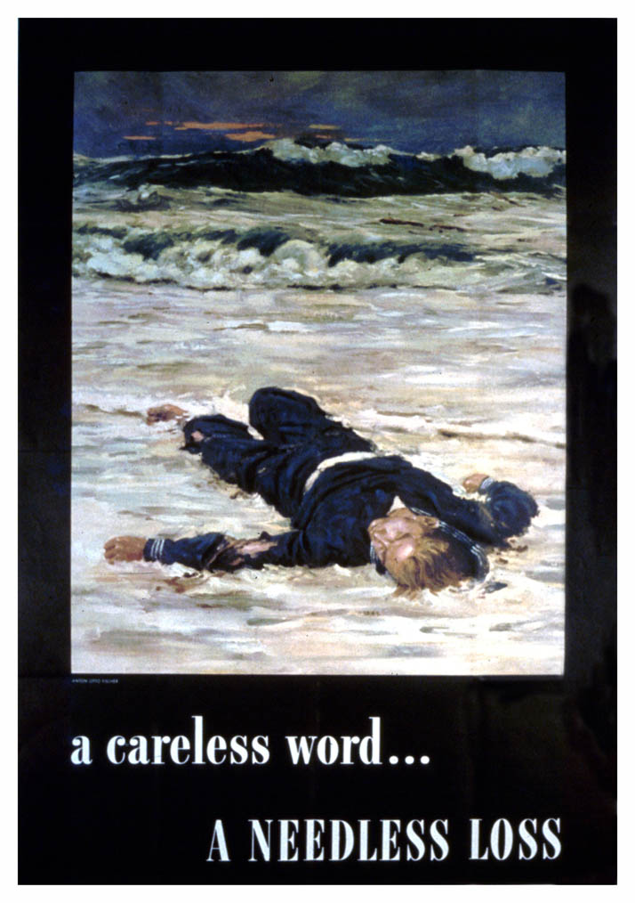 "A Careless Word, A Needless Loss" US World War II propaganda poster, warning against the disclosure of information that might lead to unnecessary deaths.